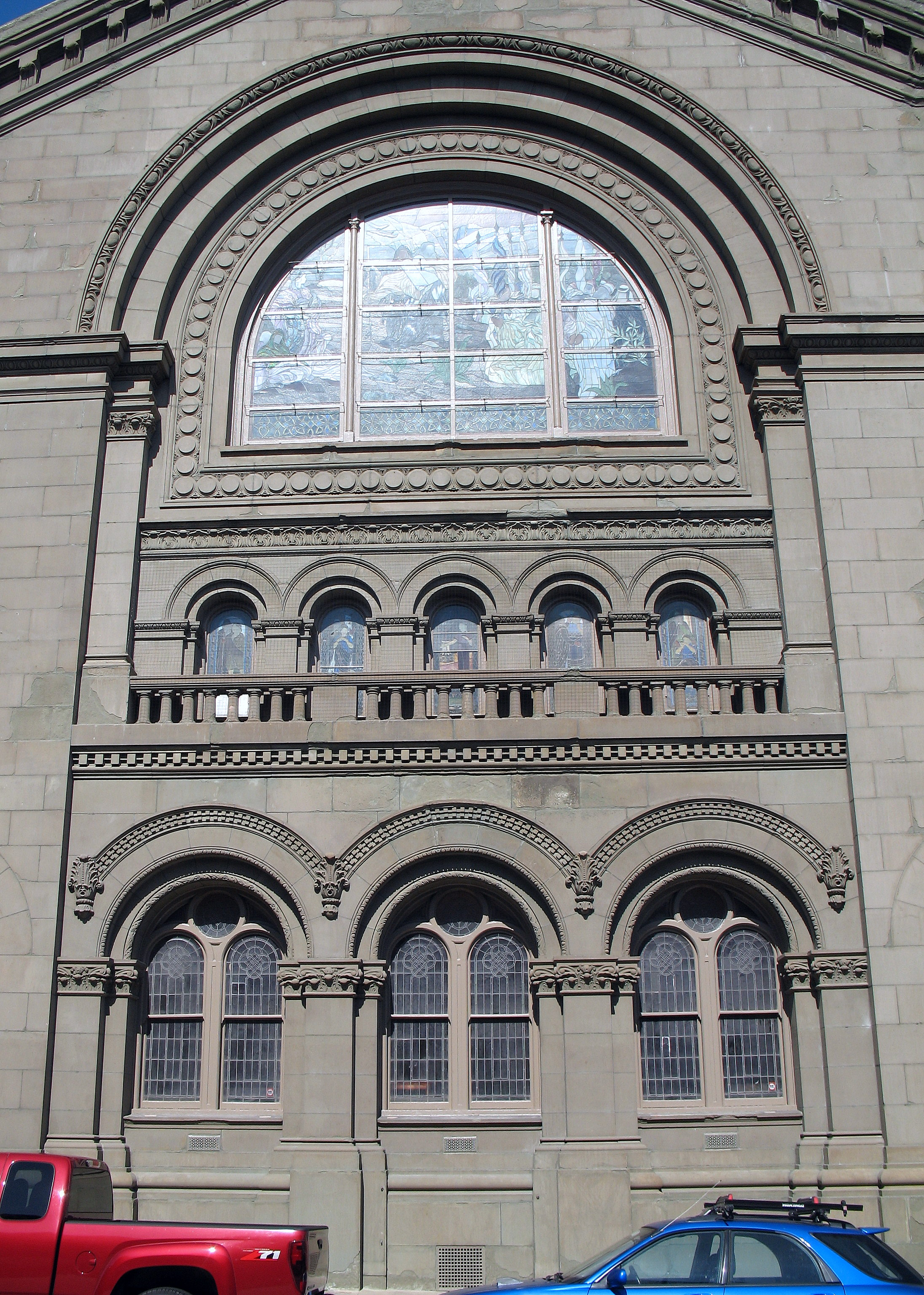 National Register of Historic Places listings in San Francisco, California. Temple Sherith Israel, 2266 California St., San Francisco, California